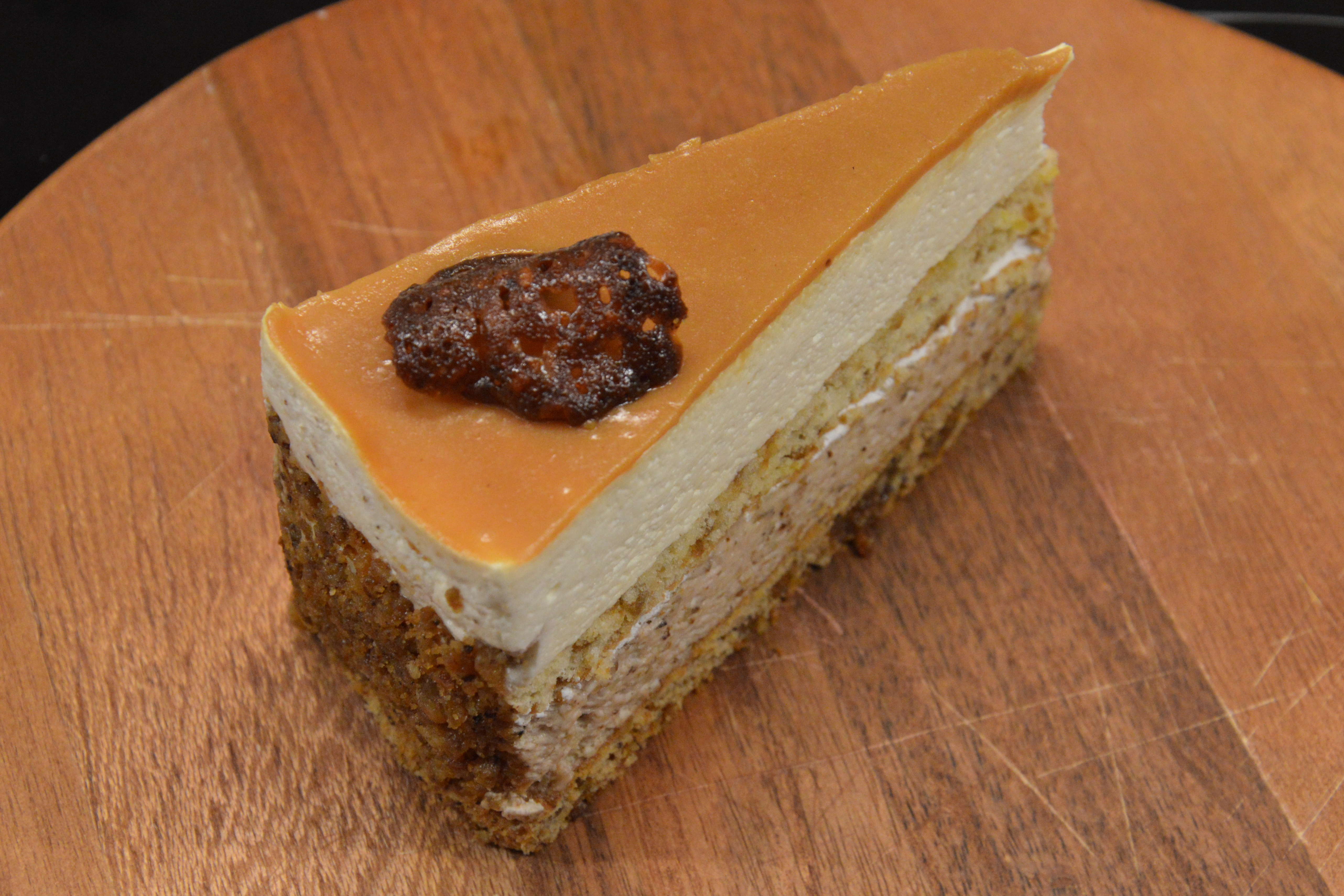 Milotai mézes grillázstorta ("Honey brittle torte of Milota"), winner of the 2013 Hungarian national torte competition, as prepared by La Mimosa Cukrászda, Radnóti Miklós utca, Budapest XIII.